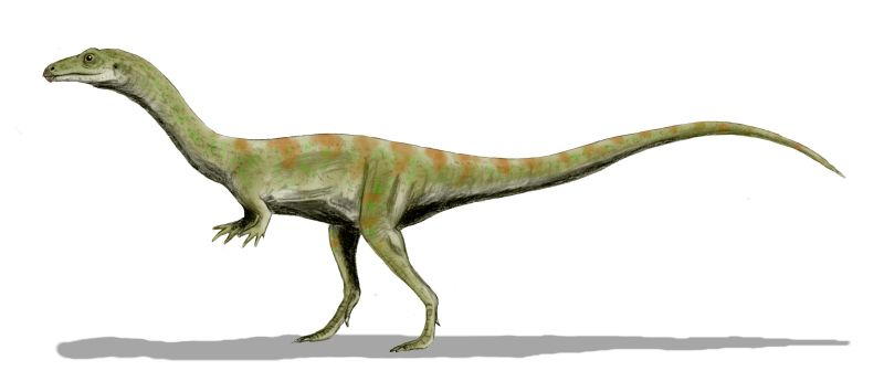 Shuvosaurus inexpectatus, from the Late Triassic of Texas, reconstructed as a coelophysoid theropod, after J. Lehane (2006), pencil drawing